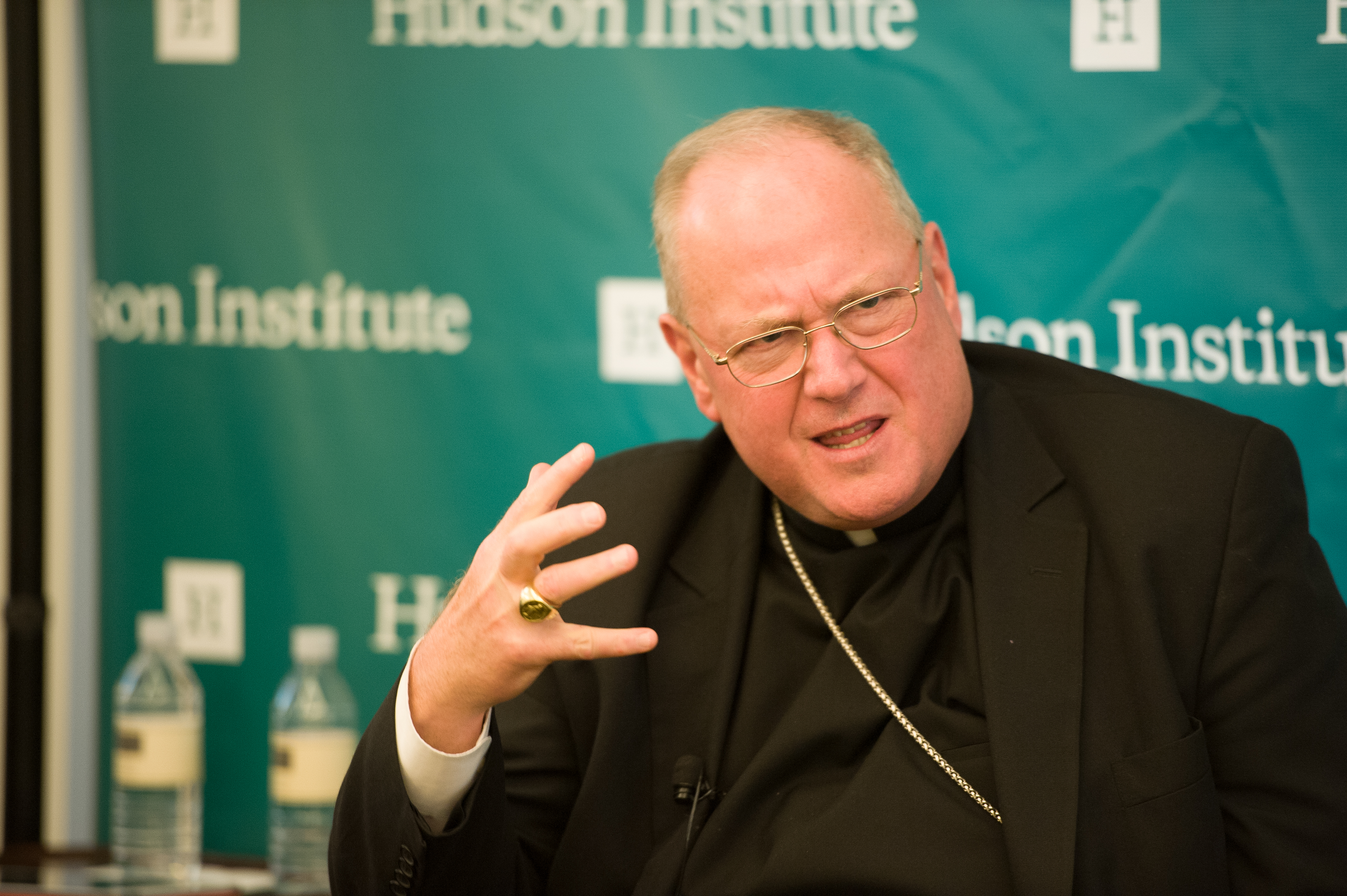 This conference focused on the policies and strategies urgently needed to help the Middle East’s vulnerable religious minorities. Leading the discussion was Cardinal Timothy Dolan, Archbishop of New York, and Hudson Distinguished Scholar Walter Russell Mead. They were joined by experts from multiple pontifical humanitarian agencies, writers, and noted experts.